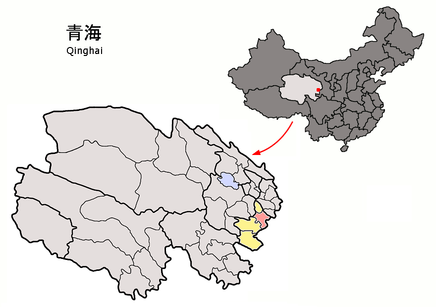 Location of Tongren County (pink) and Huangnan Prefecture (yellow) within Qinghai province of China Map drawn in september 2007 using various sources, mainly : Qinghai province administrative regions GIS data: 1:1M, County level, 1990 Qinghai Counties map from "Plateau Perspectives" (the limits of some county-level subdivisions may not be accurate)